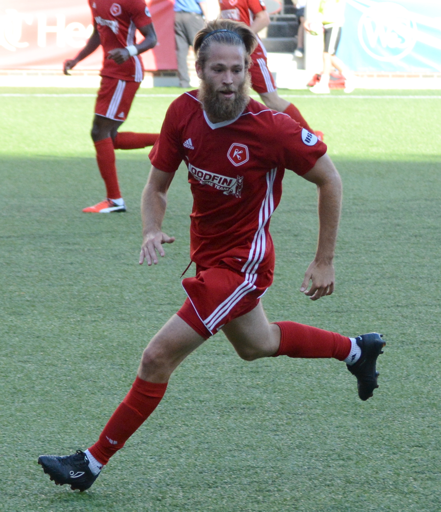 Taken during a USL regular season match between FC Cincinnati and Richmond Kickers at Nippert Stadium in Cincinnati, USA on July 9, 2017.